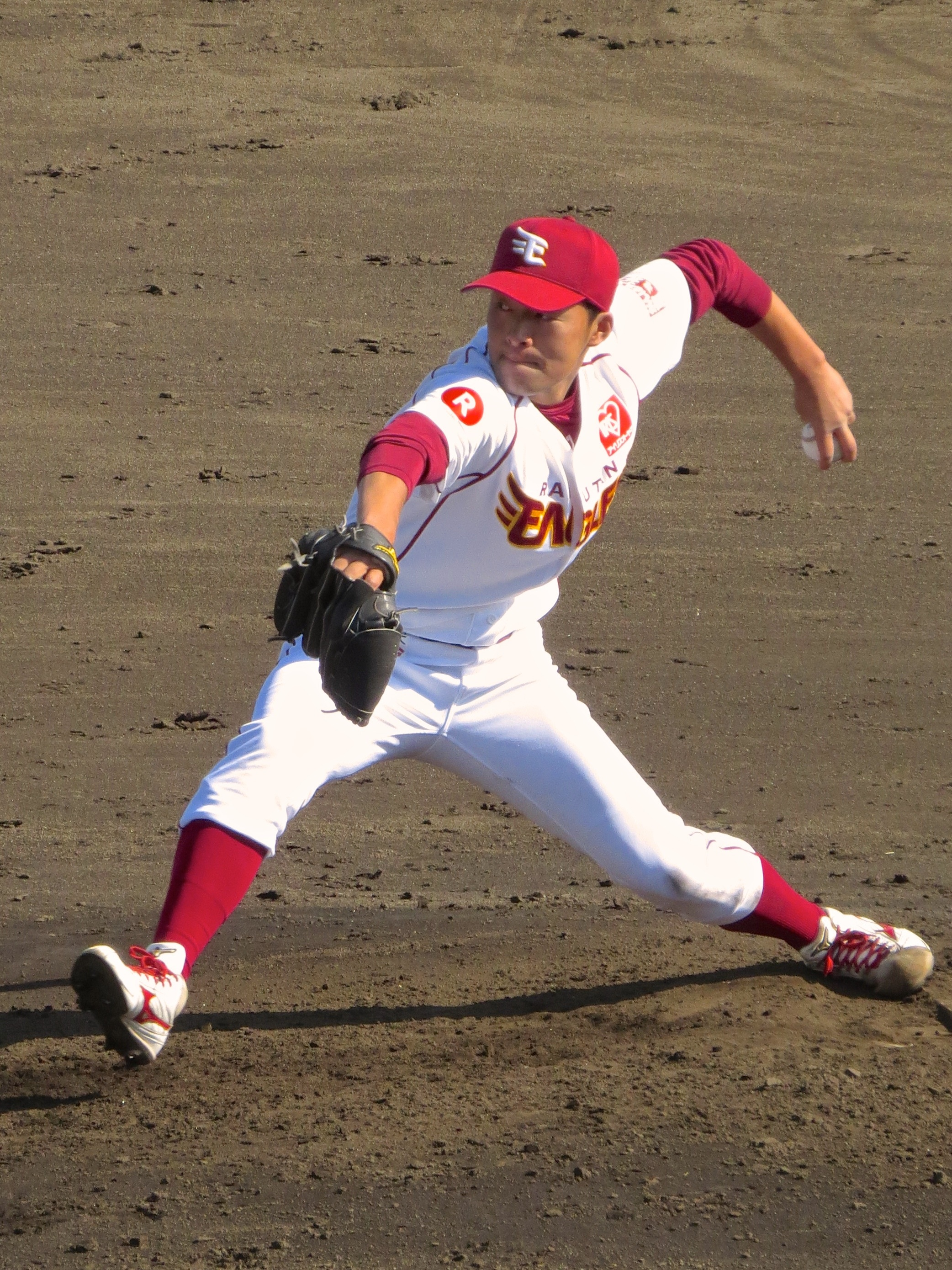 Takahito Otsuka, pitcher of the Tohoku Rakuten Golden Eagles, at Saitama Municipal Urawa Baseball Stadium.